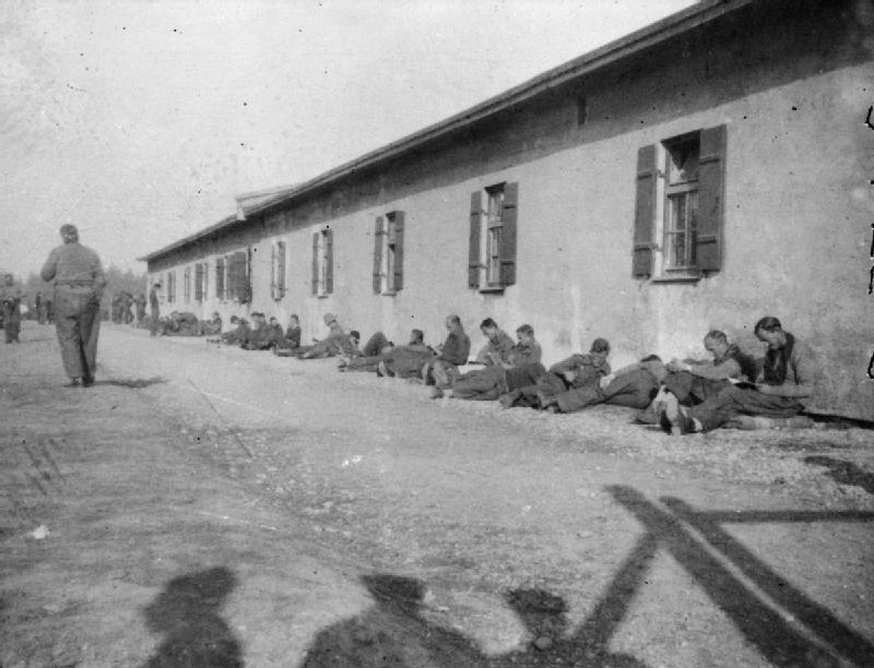 The British Army in North-west Europe 1944-45 A photograph taken covertly at Stalag VIIA at Mooseburg in November 1943, showing British POWs resting by the side of a hut.